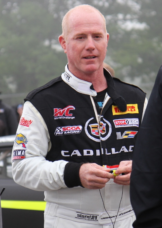 Sports car racing driver Johnny O'Connell before his Pirelli World Challenge race at Road America.